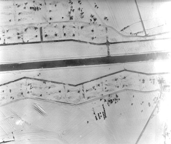 A-94 Conflans-en-Jarnisy (Conflans) ALG 1944